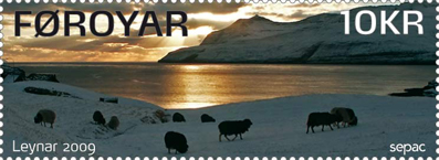 Stamp FO 672 of the Faroe Islands: Sepac 2009.